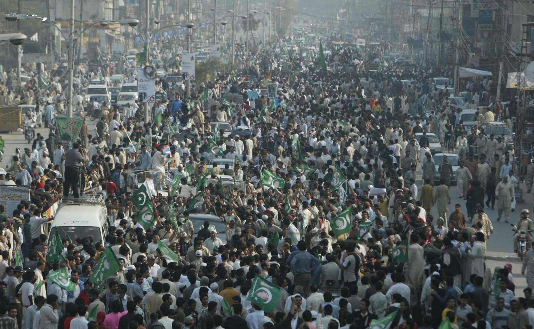 Nawaz-Sharif-Long-March-on-Ferozpur-Road-lahore-on-March-15-2009